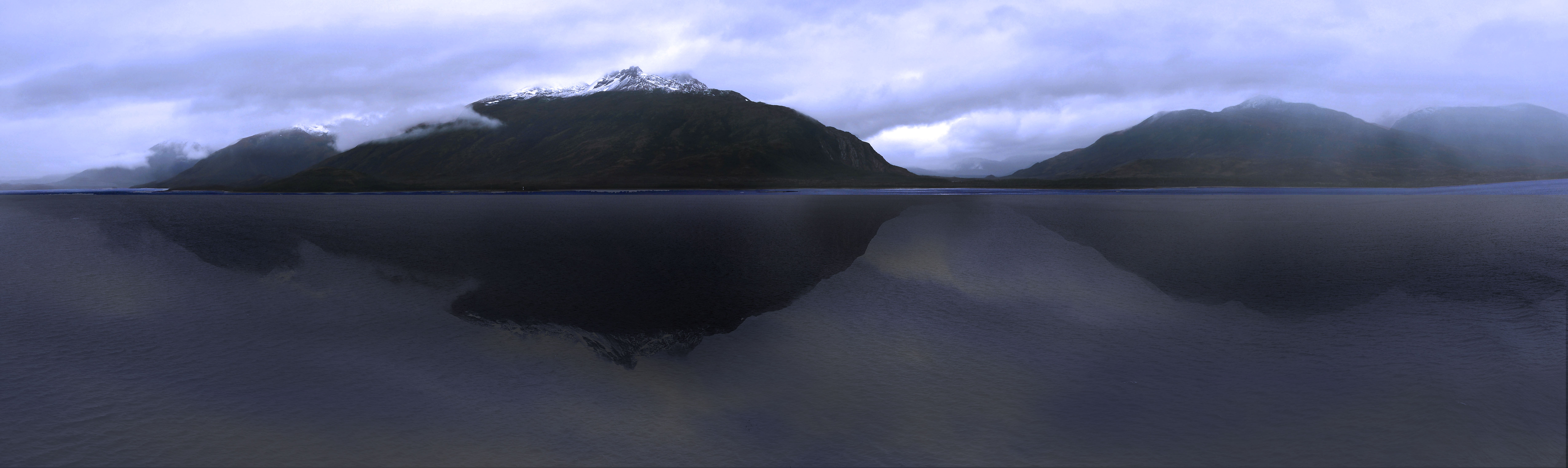 STRAIT OF MAGELLAN (March 15, 2010) A panoramic photo shows mountains reflected in the waters of the Straight of Magellan, one of the southernmost parts of South America. (U.S. Navy photo illustration by Mass Communication Specialist 3rd Class Antwjuan Richards-Jamison/Released)